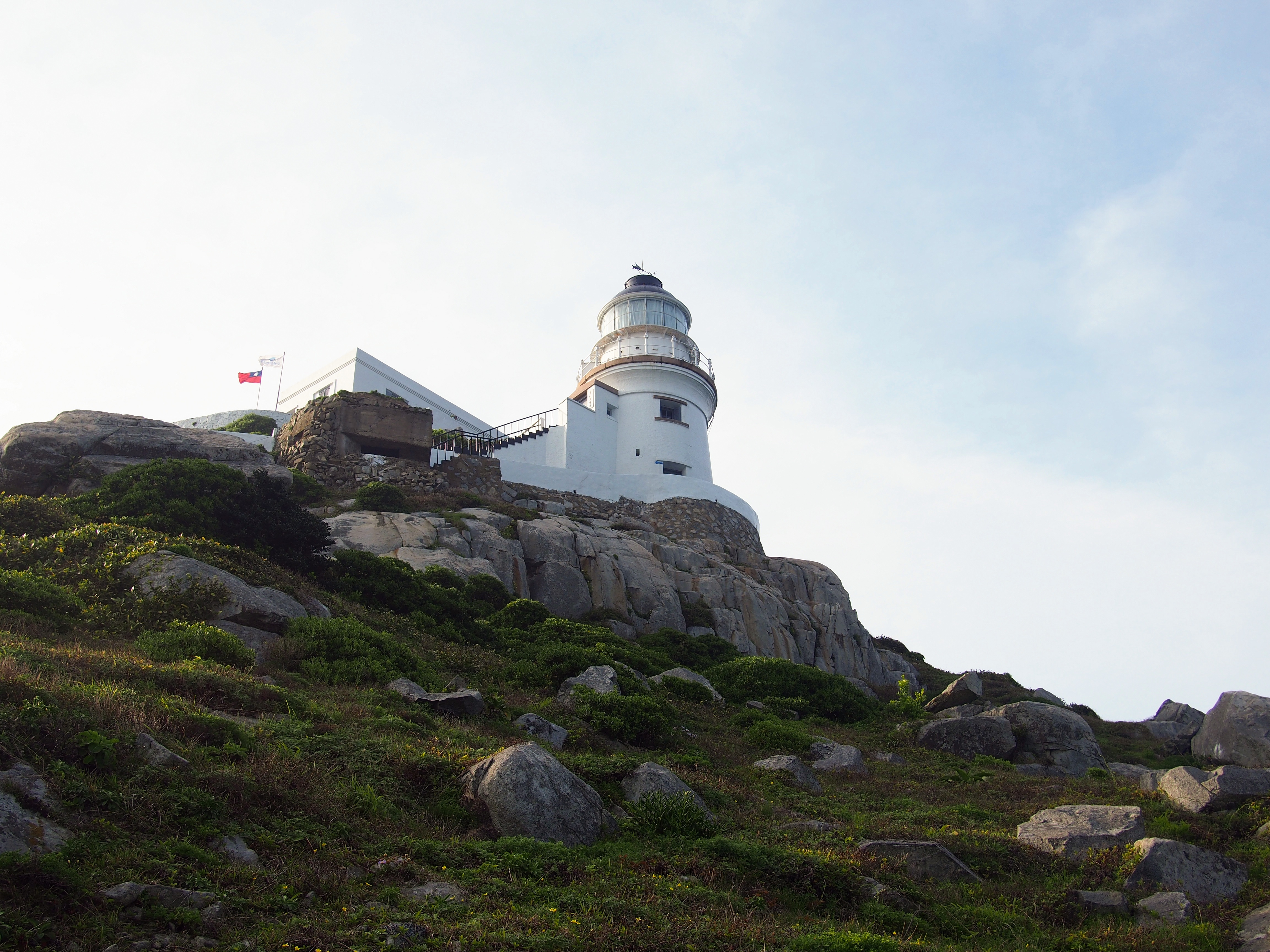 Dongyin Lighthouse - 2016.04